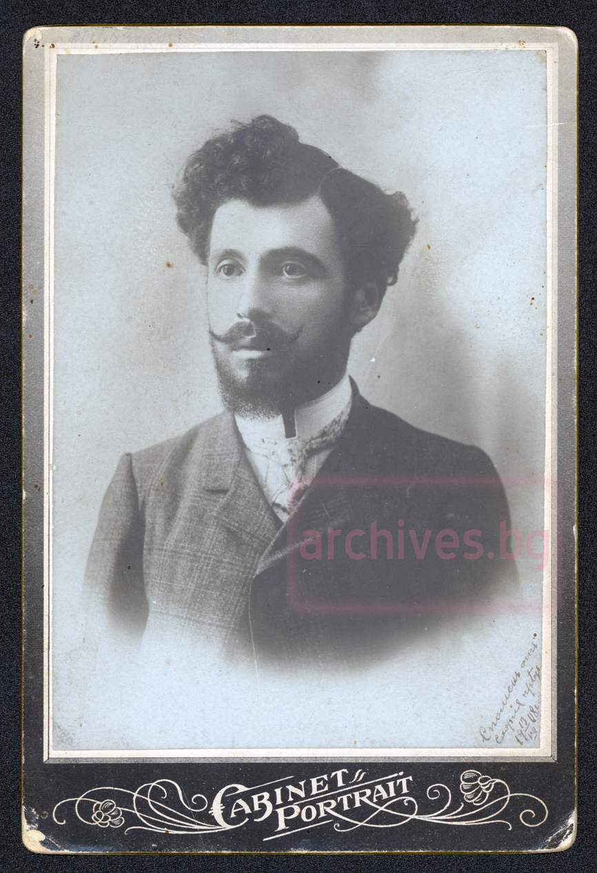 portrait of Alexander Evtimov